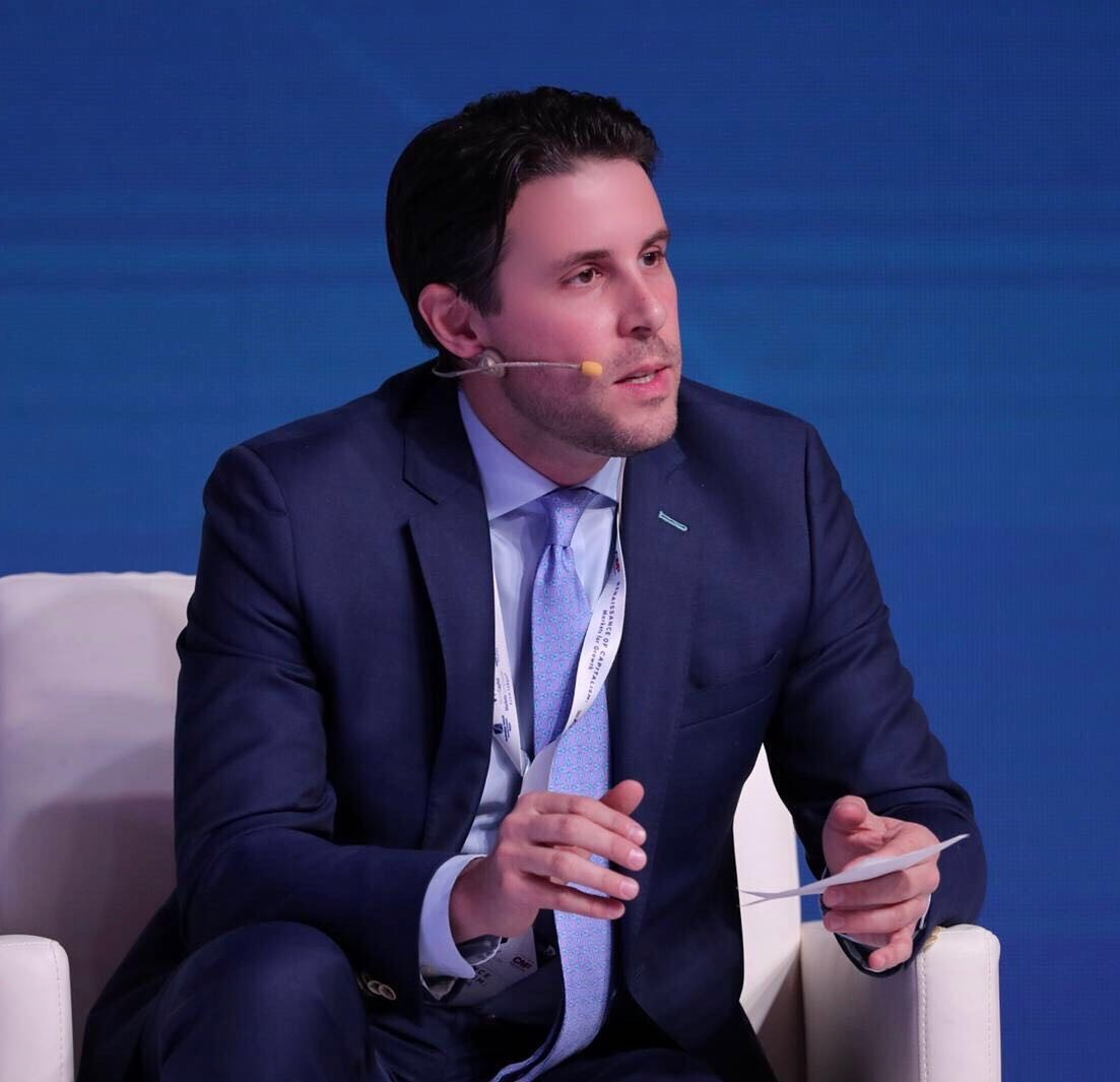 John D'Agostino keynote speech at The World Capital Markets Symposium, Kuala Lumpur in 2018